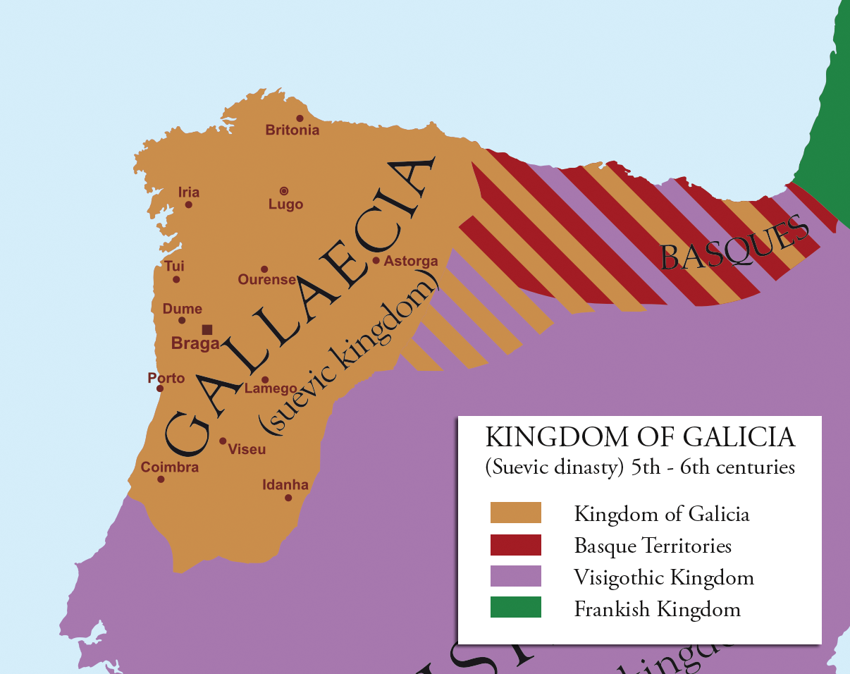 Kingdom of Galicia during the Suevic dinasty period (5th-6th centuries). Western Europe.